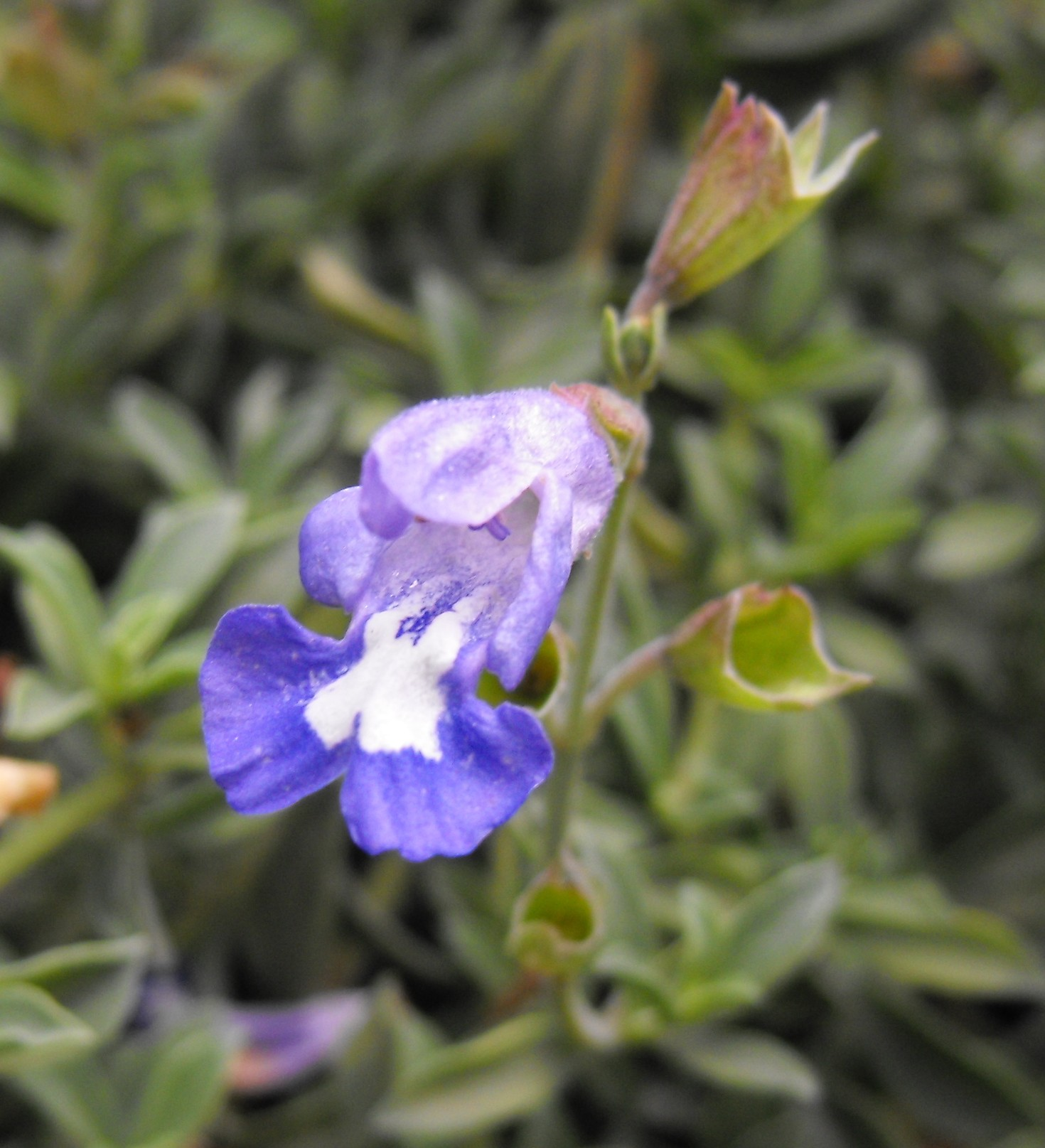 Salvia muirii on display at the San Diego County Fair, California, USA. Identified by exhibitor's sign.